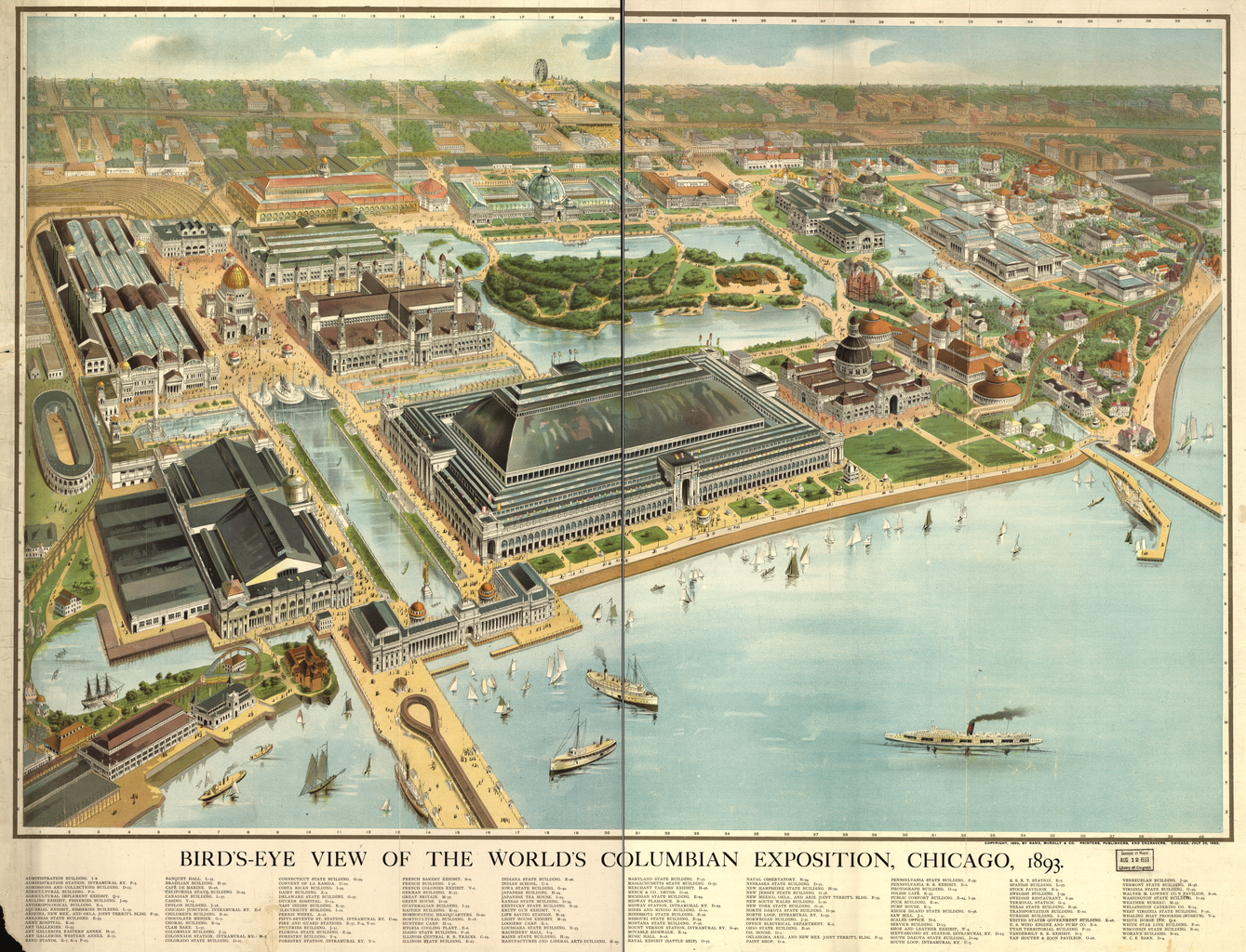 "Bird's-Eye View of the World's Columbian Exposition, Chicago, 1893", Rand McNally and Company